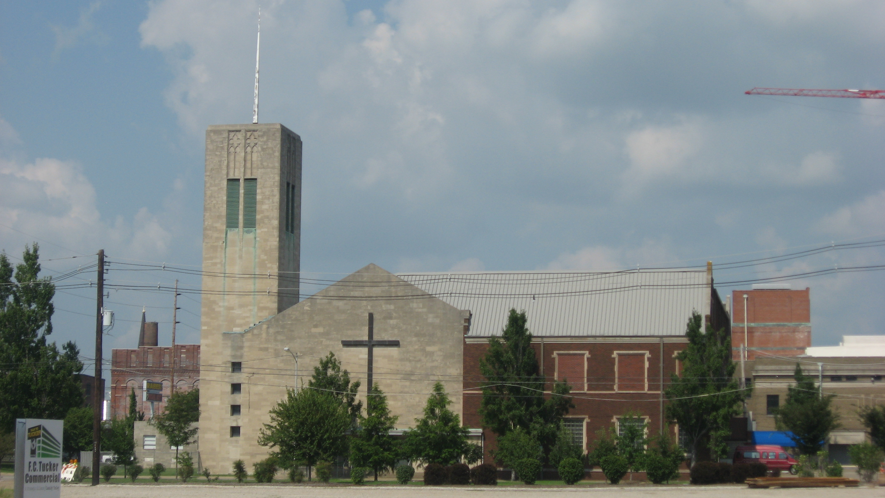 Front of St. John's United Church of Christ, located at 314 Market Street in Evansville, Indiana, United States. Its church hall (the brick building to the right), built in 1921, it is listed on the National Register of Historic Places.